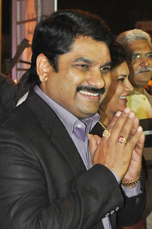 Hon. Satej alias Bunty D. Patil